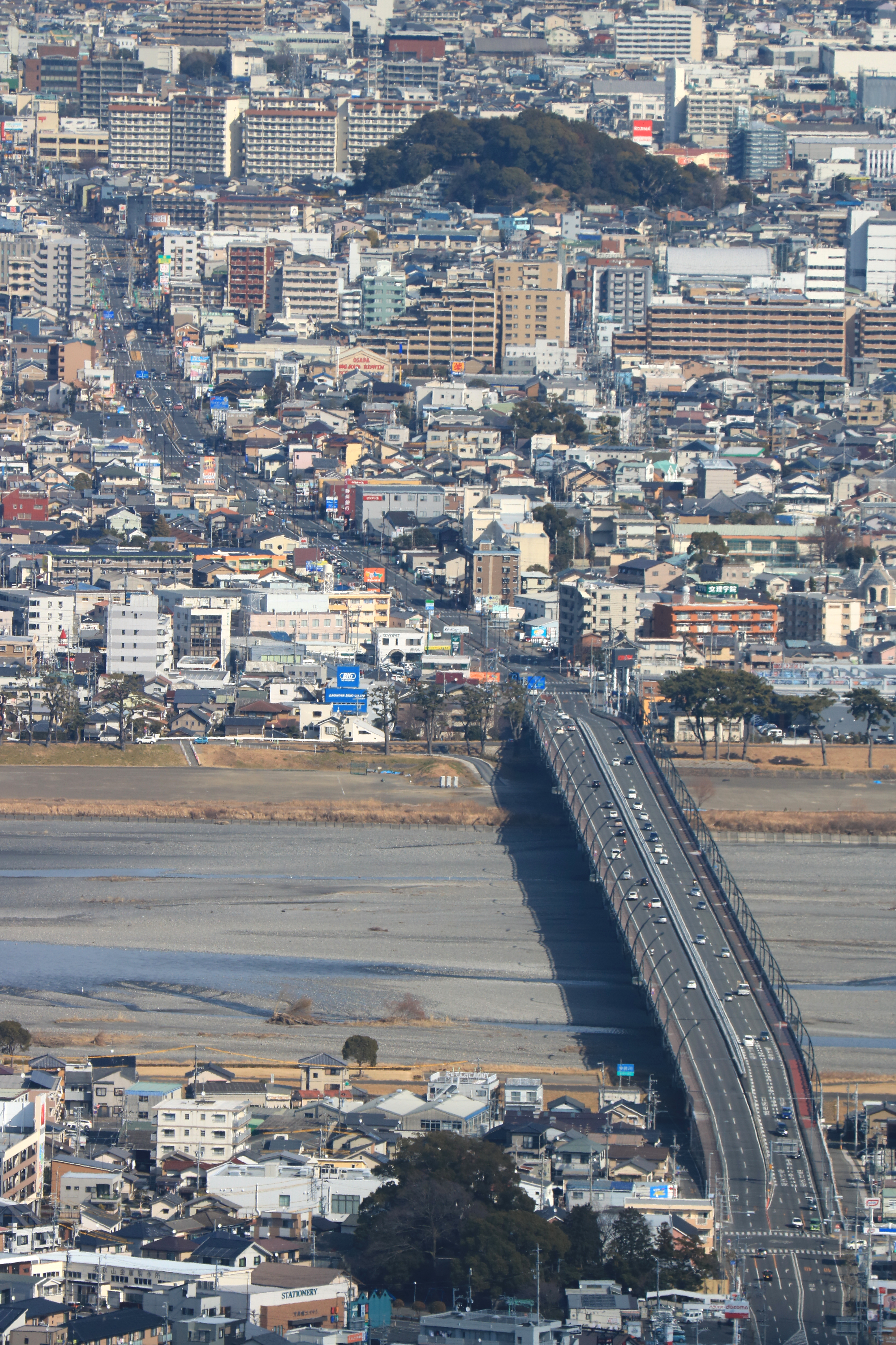 Shizuoka Bridge over Abe River Shizuoka City Mariko-Ikeda Line seen from Choseniwa Suruga-ku, Shizuoka City, Shizuoka Prefecture, Japan.